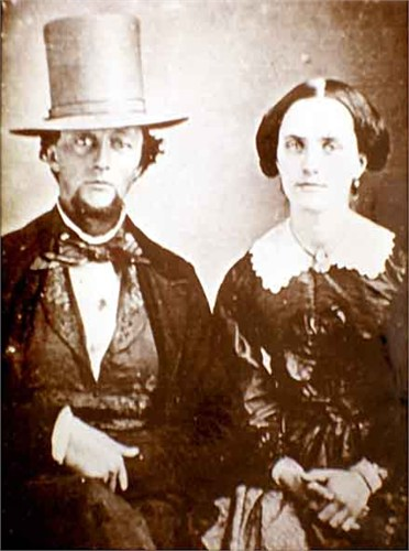 Joseph John Chapman "José el Inlés", Sr., and his wife Gaudalupe Ortega y Sánchez, circa 1847.